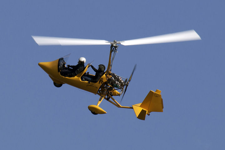 An ELA cougar gyrocopter flying over Torino Aeritalia airport.